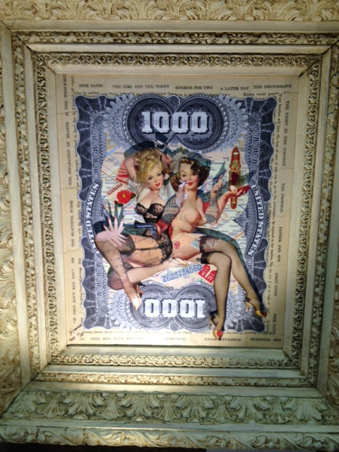 This is an example of Visual Focus Depth Art currently on Gallery display. It shows the composition and theme. Original Art by French Artist Simone-2014